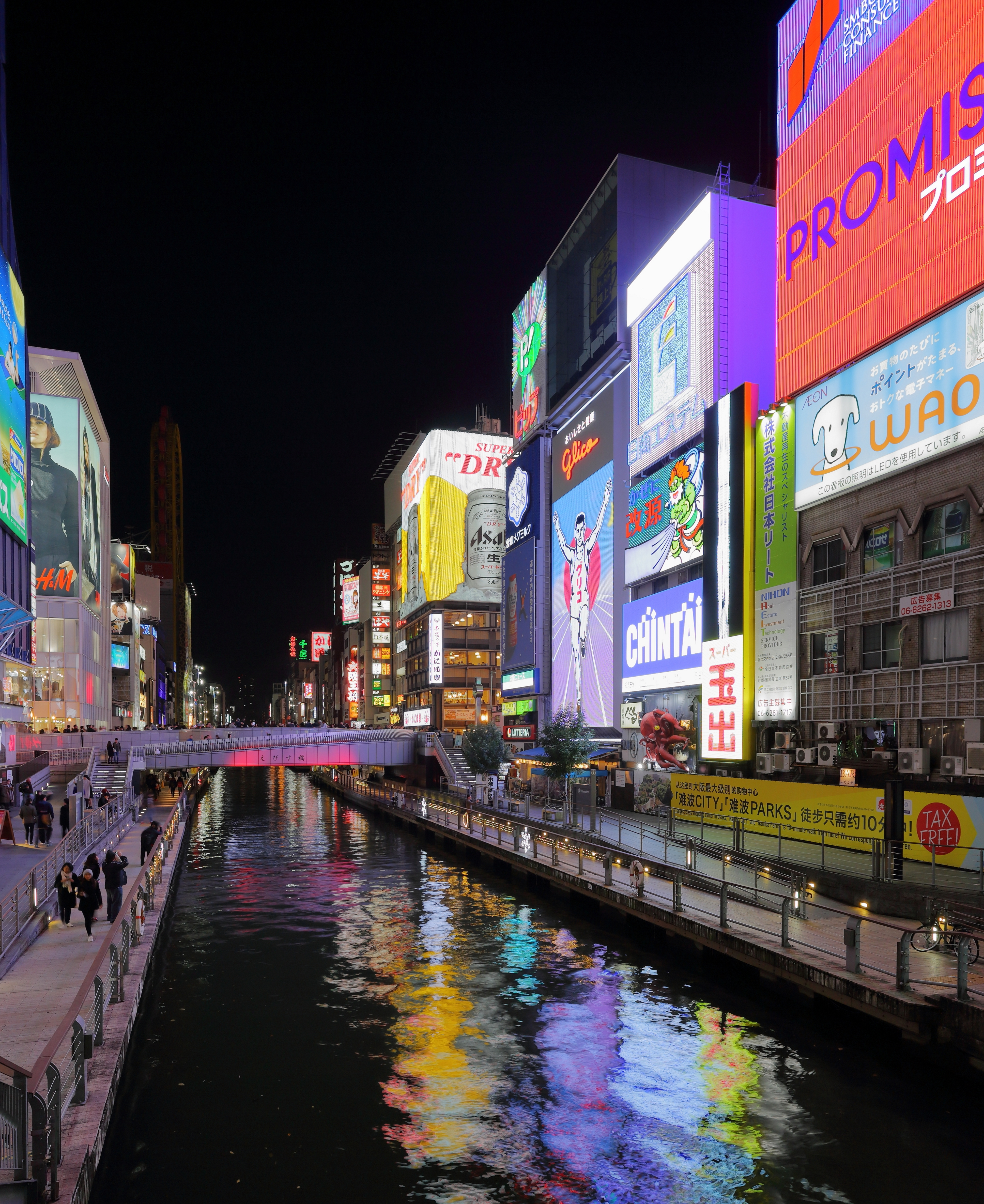 Wall of signboards at Ebisu Bridge on the Dōtonbori Canal, Osaka, Japan.